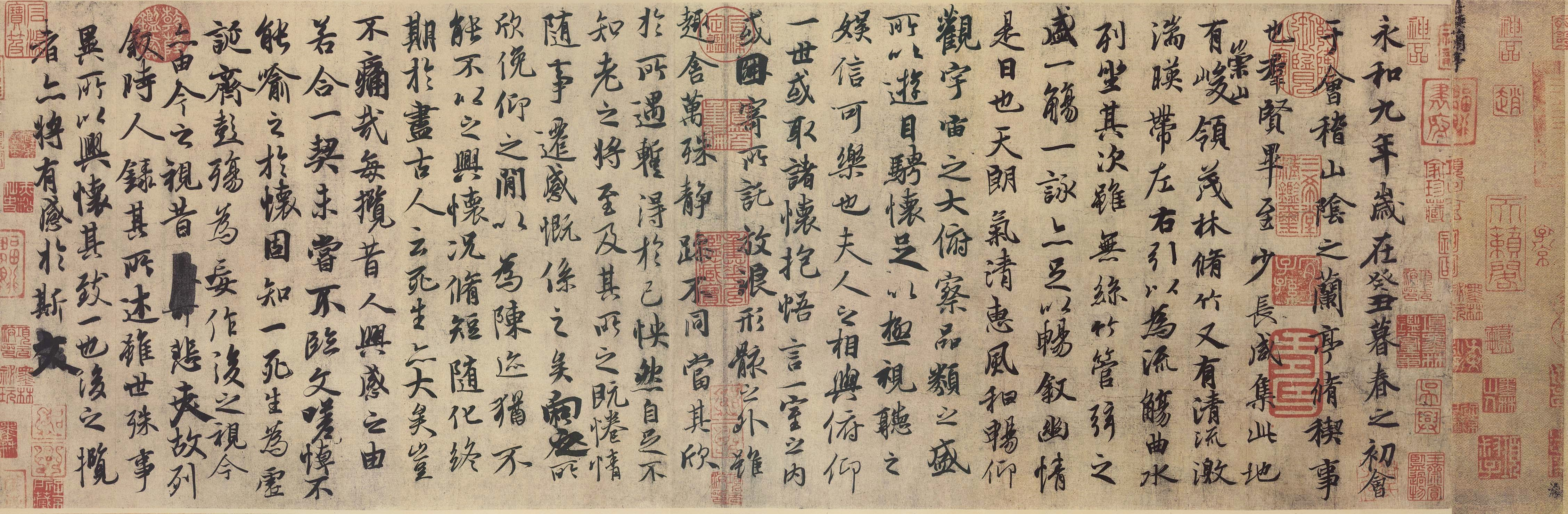 Shenlong tie